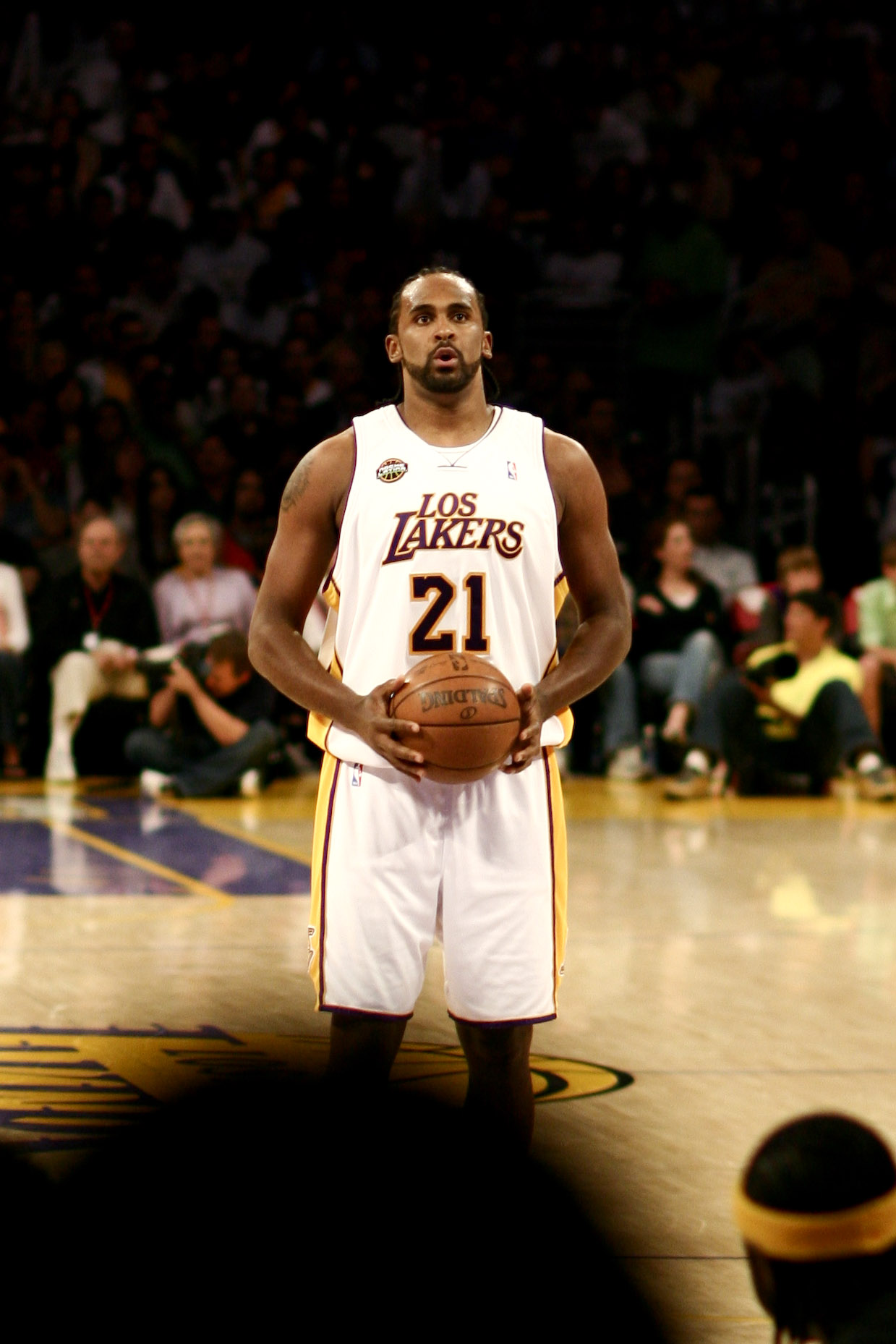 Ronny Turiaf taking a free throw shot in the 4th quarter of a Warrior/Laker game on March 23, 2008 - he made the shot. Photographed by Asim Bharwani